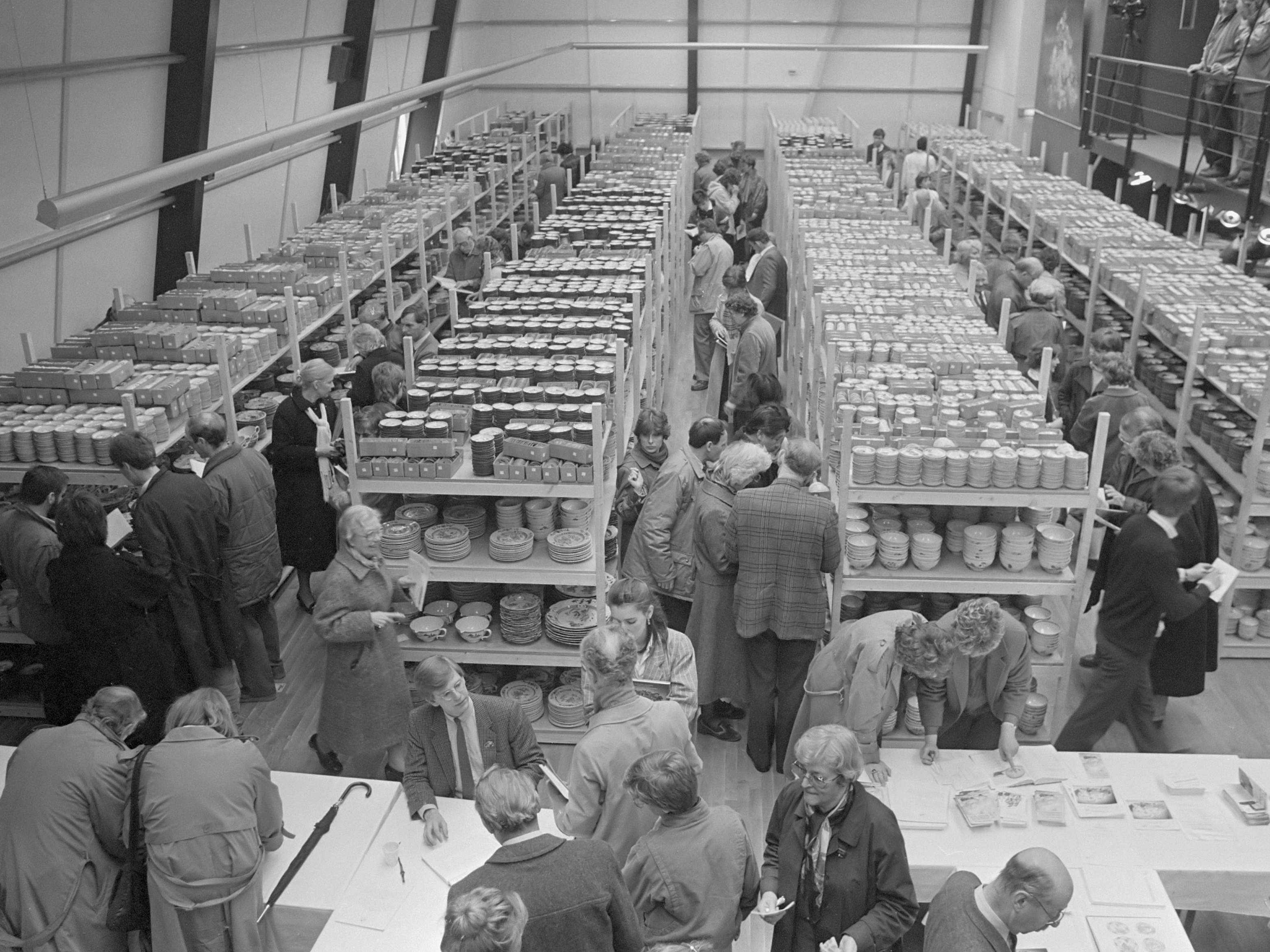 Viewing day at Christie's auction house in Amsterdam for the porcelain called "Nanking Cargo" from the Dutch East India Company ship De Geldermalsen. Visitors view the porcelain.